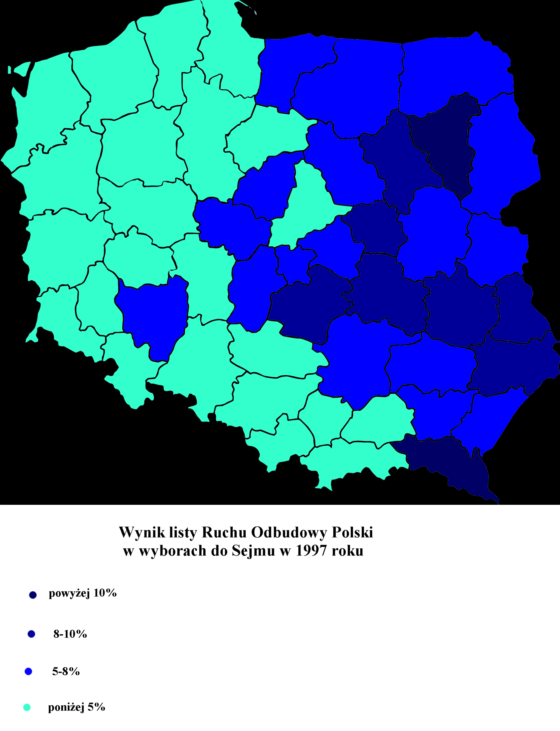 Movement for Reconstruction of Poland results in the Polish parliamentary election, 1997